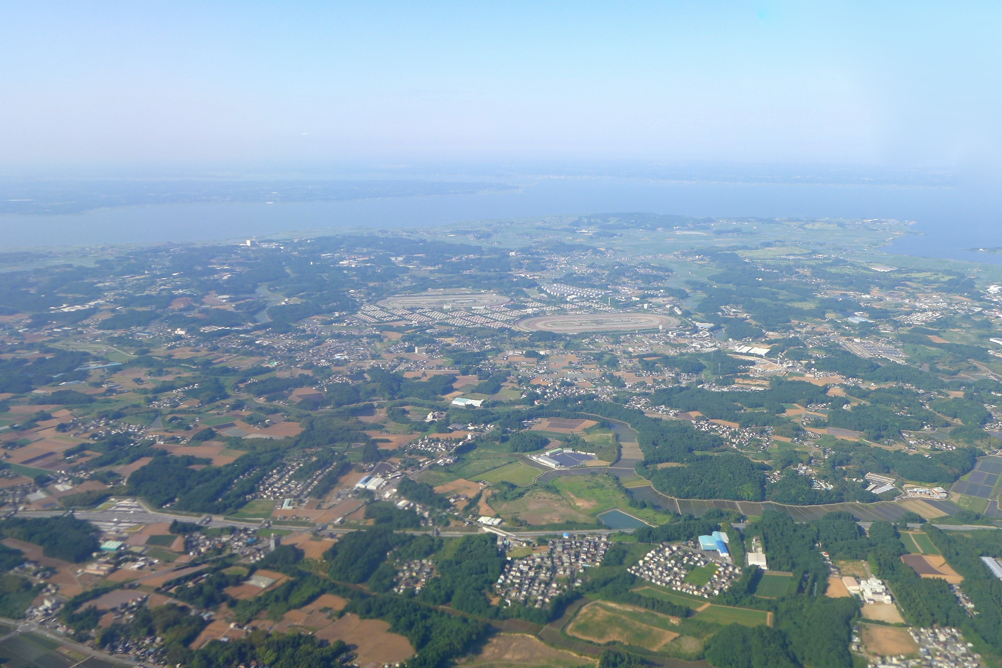 Inashiki District 稻敷郡